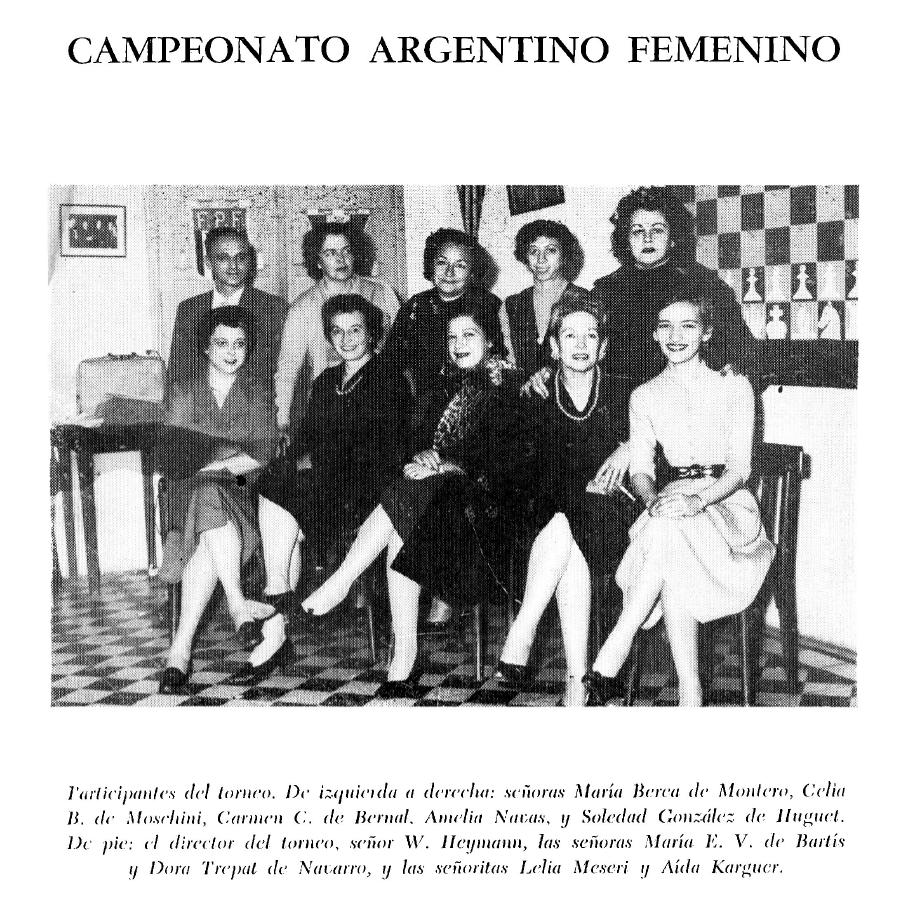 Argentine Women Chess Champions and Players - 1958